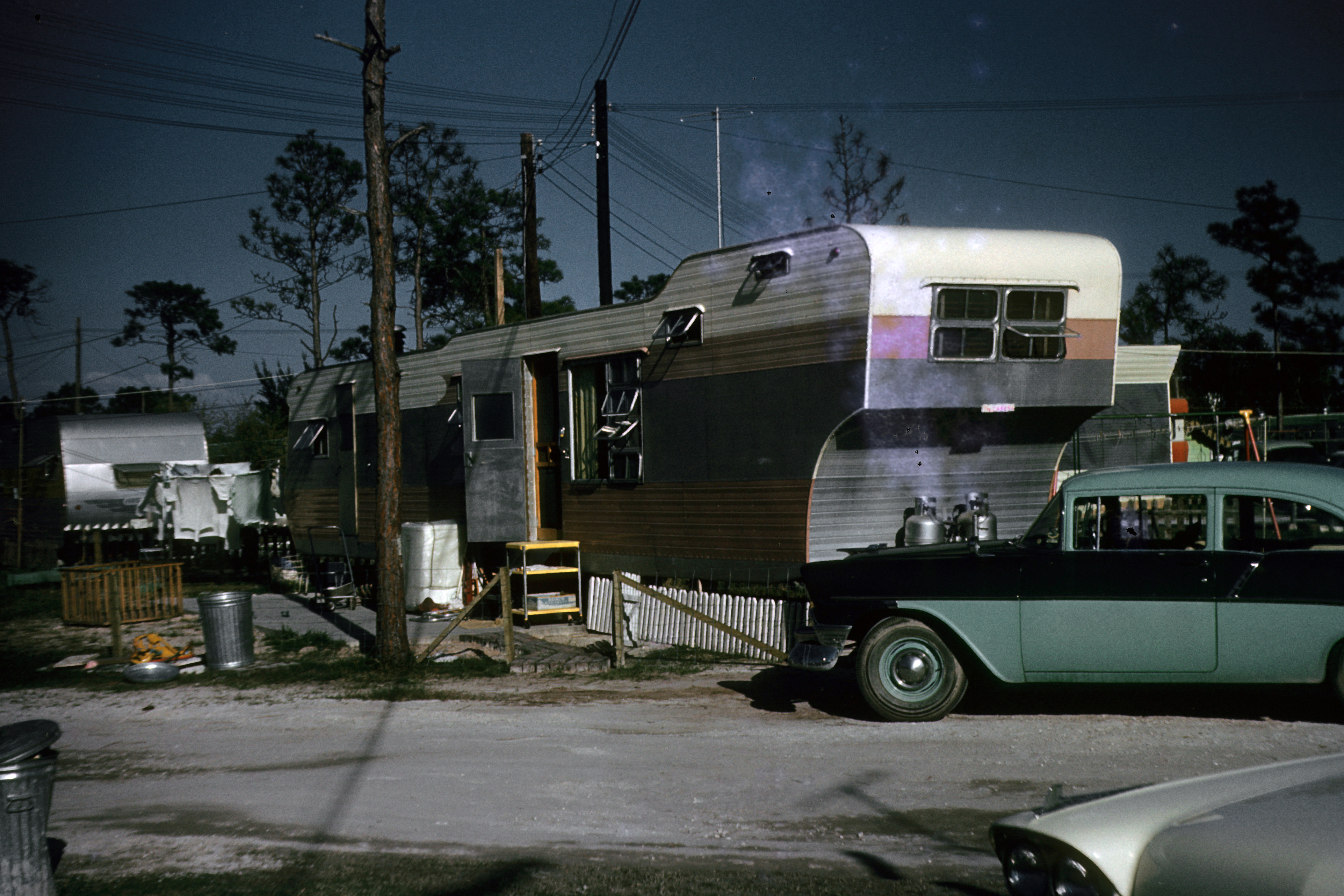 1958 photo of 1955 8 foot by 56 foot Zimmer trailer in a trailer park in Tampa Florida, this area is now a gated community with new houses